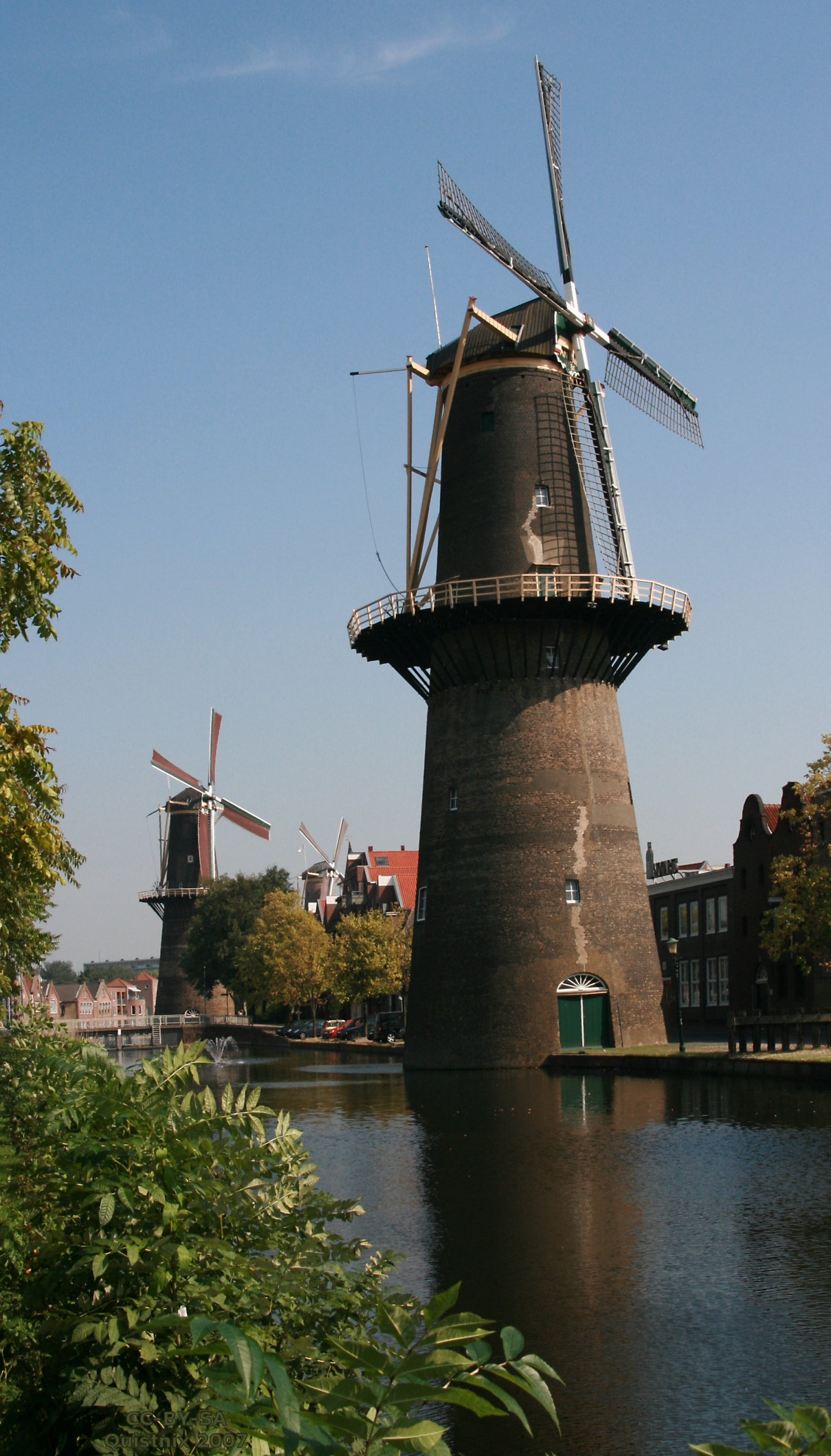 Schiedam, Netherlands: Windmill De Vrijheid, with windmills De Noord and De De Nieuwe Palmboom in the background